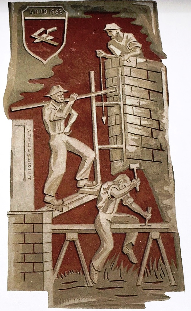 Mason by Erich Unterweger, Gegental, Millstätterstrasse # 91, Carinthia, Austria, European Union